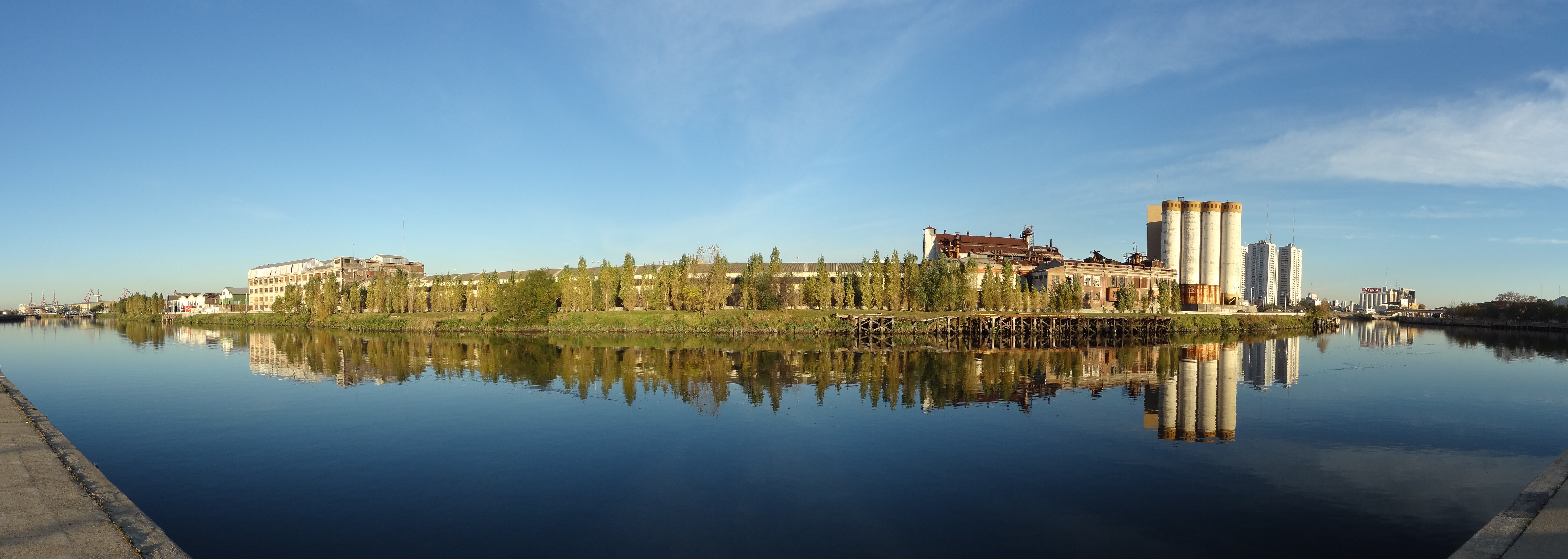 Riachuelo river, between Barraca Peña and new Pueyrredon Bridge